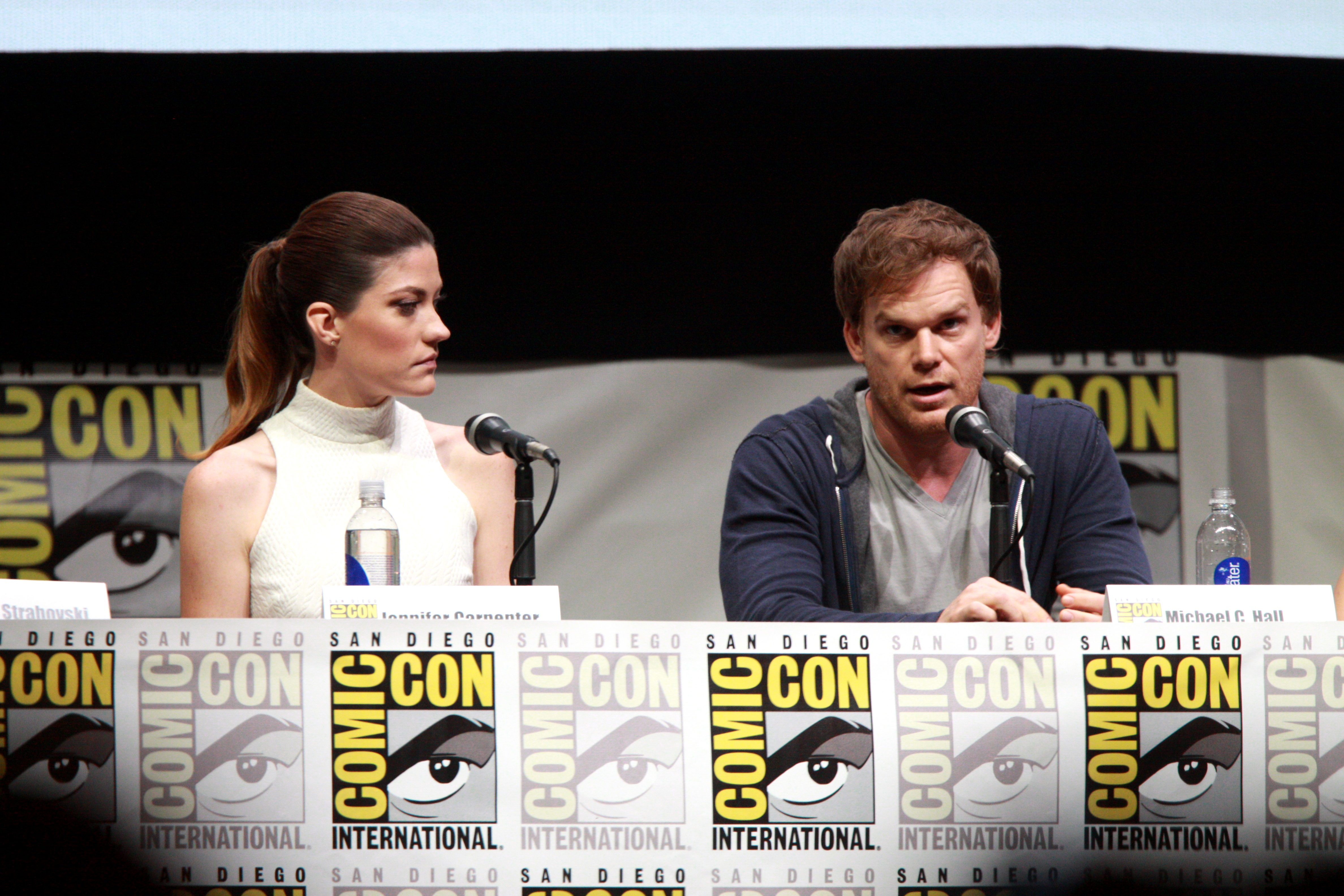 Jennifer Carpenter and Michael C. Hall speaking at the 2013 San Diego Comic Con International, for "Dexter", at the San Diego Convention Center in San Diego, California.